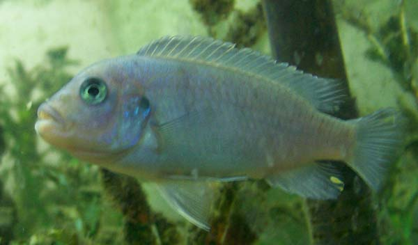 Metriaclima lombardoi female (kenyi cichlid)